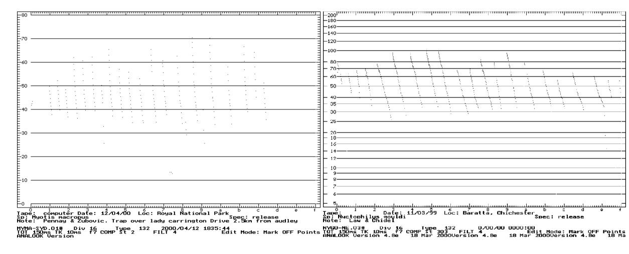 A comparison of Myotis macropus call and Nyctophilus gouldi call Copyright © NSW Department of Environment and Conservation Pennay, M., Law, B., Reinhold, L. (2004). Bat calls of New South Wales: Region based guide to the echolocation calls of Microchiropteran bats. NSW Department of Environment and Conservation, Hurstville. Material presented in this publication may be copied for personal use or republished for non-commercial purposes provided that NSW Department of Environment and Conservation is fully acknowledged as the copyright owner.